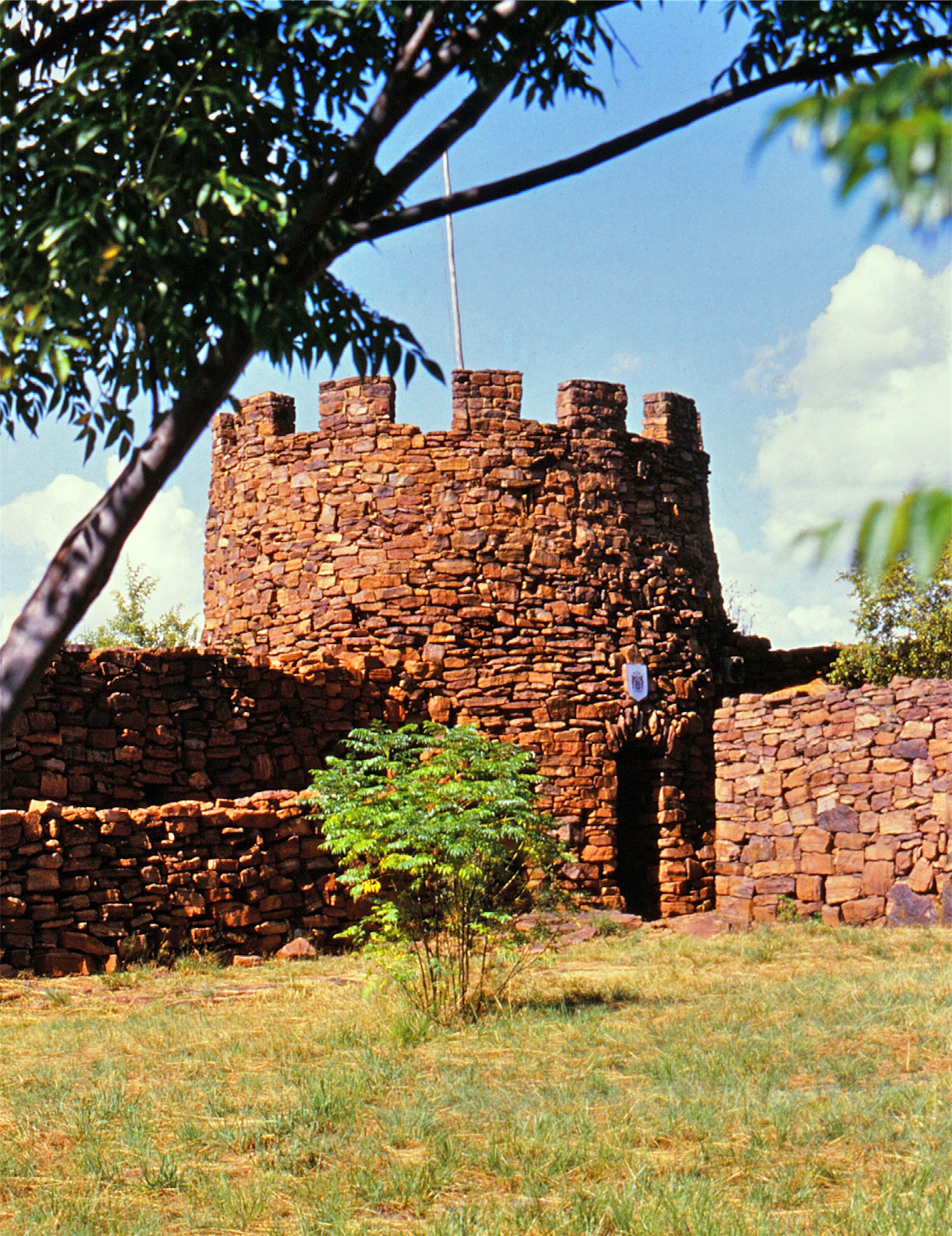 This media shows a South African Protected Site with SAHRA file reference 9/2/242/0002.